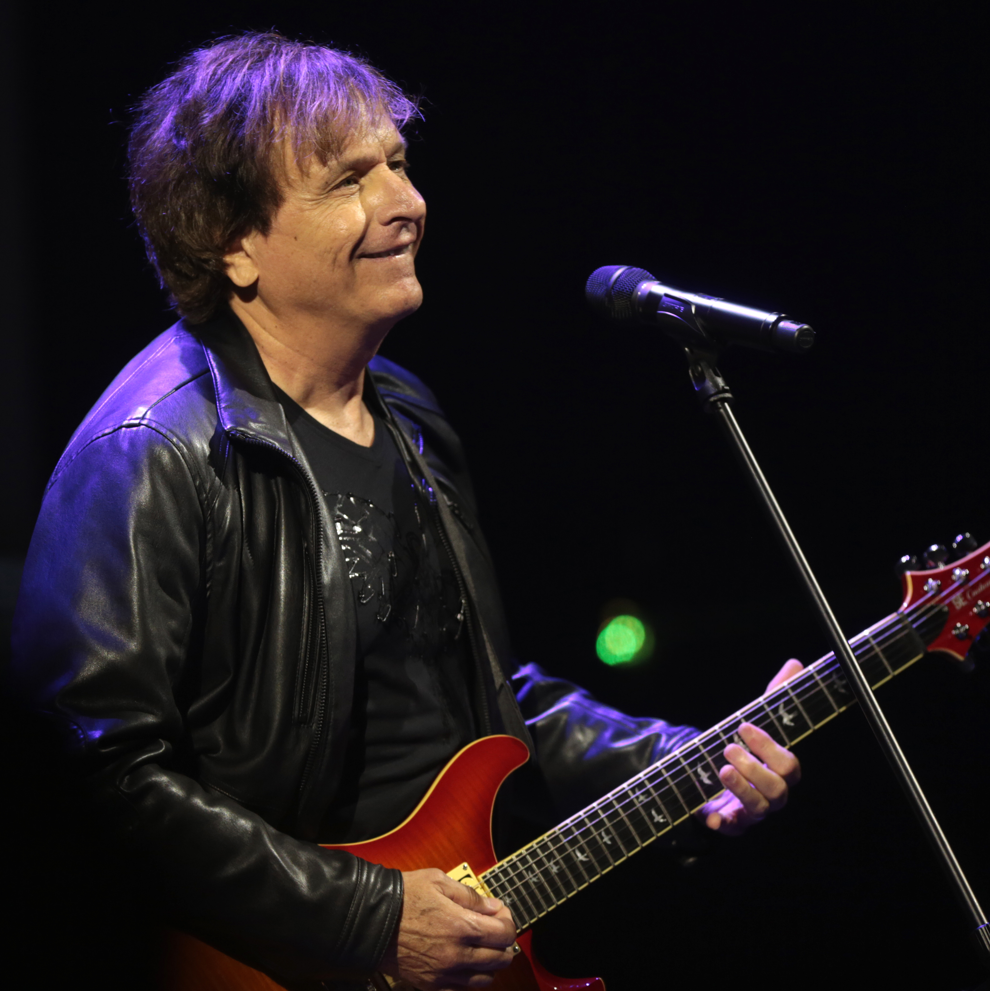 Stan Bush performing at the 2018 San Diego Comic-Con International in San Diego, California.